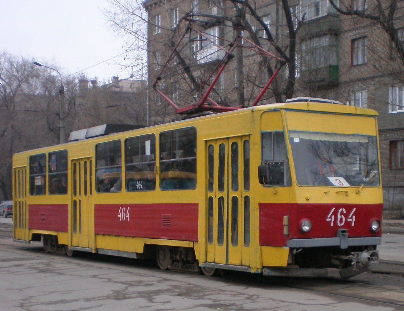 Tatra T6B5 in Zaporizhzhya